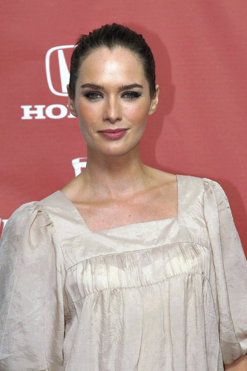 British actress Lena Headey. Taken at the 2007 Scream Awards.